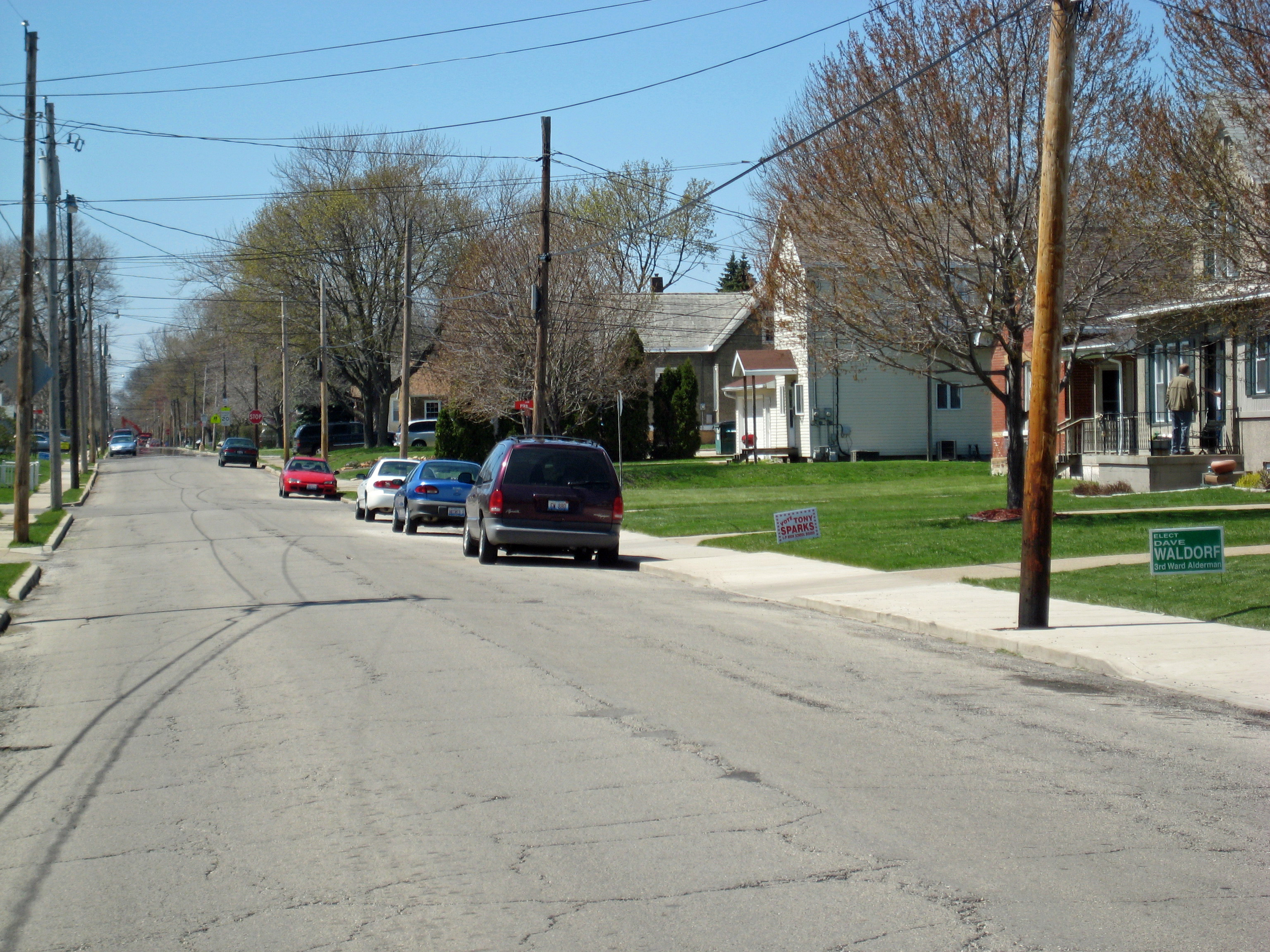 A residential street in Peru, Illinois (first cross street is Pike)